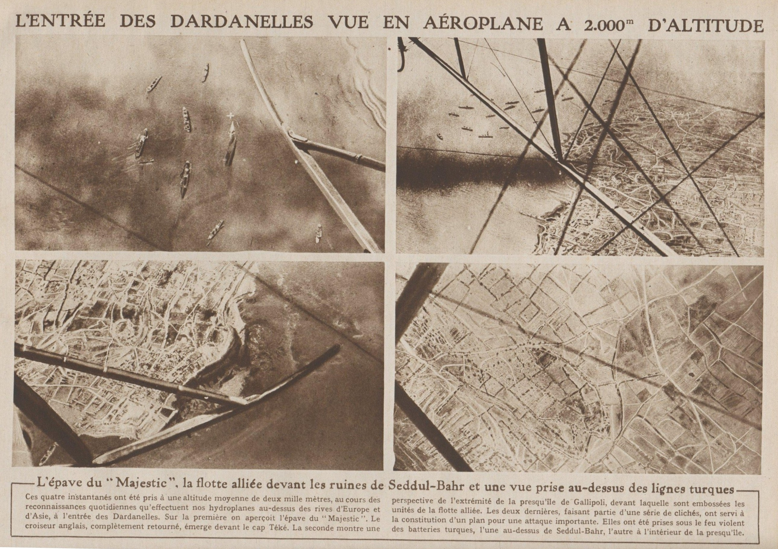 Four aerial views of the Dardanelles in 1915, after the landing of Allied troops. Photographs published by the weekly Le Miroir 18 July 1915. Approximate translation : four photographs taken at 2000 meters above the French seaplanes. Photograph 1, top left: wreck of the battleship Majestic, capsized near the white cross. Photograph 2, top left: End of the Gallipoli Peninsula where embossed Allied squadrons. Bottom photographs: they were made under fire from Turkish artillery to prepare a major attack, the first above Seddul-Bahr, the second within the peninsula.